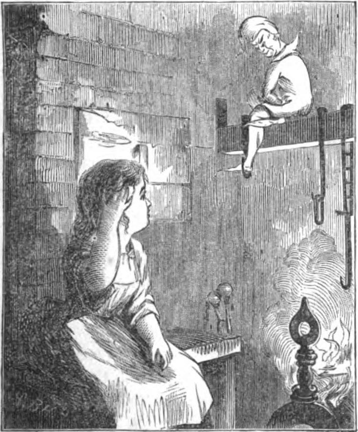 Uncredited illustration for “A Fire Story,” by Jane G. Austin, Student and Schoolmate, vol. 21, no. 5, May 1868, p. 205. Digitized by Google from the collection of the New York Public Library. Page image downloaded from HathiTrust and cropped. Depicts characters Rhoda and the Chimney Elf.